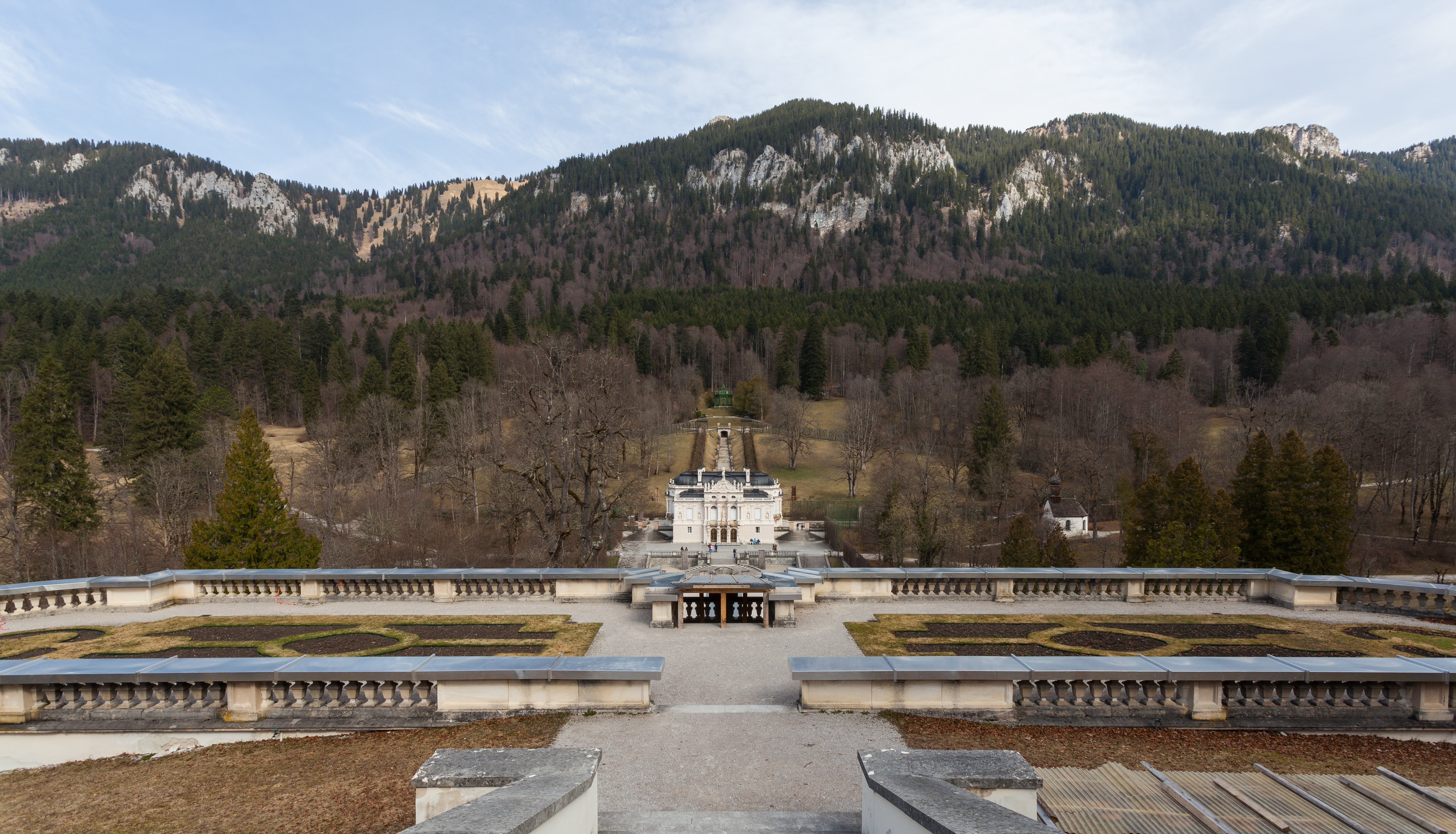 Linderhof Palace, Bavaria, Germany